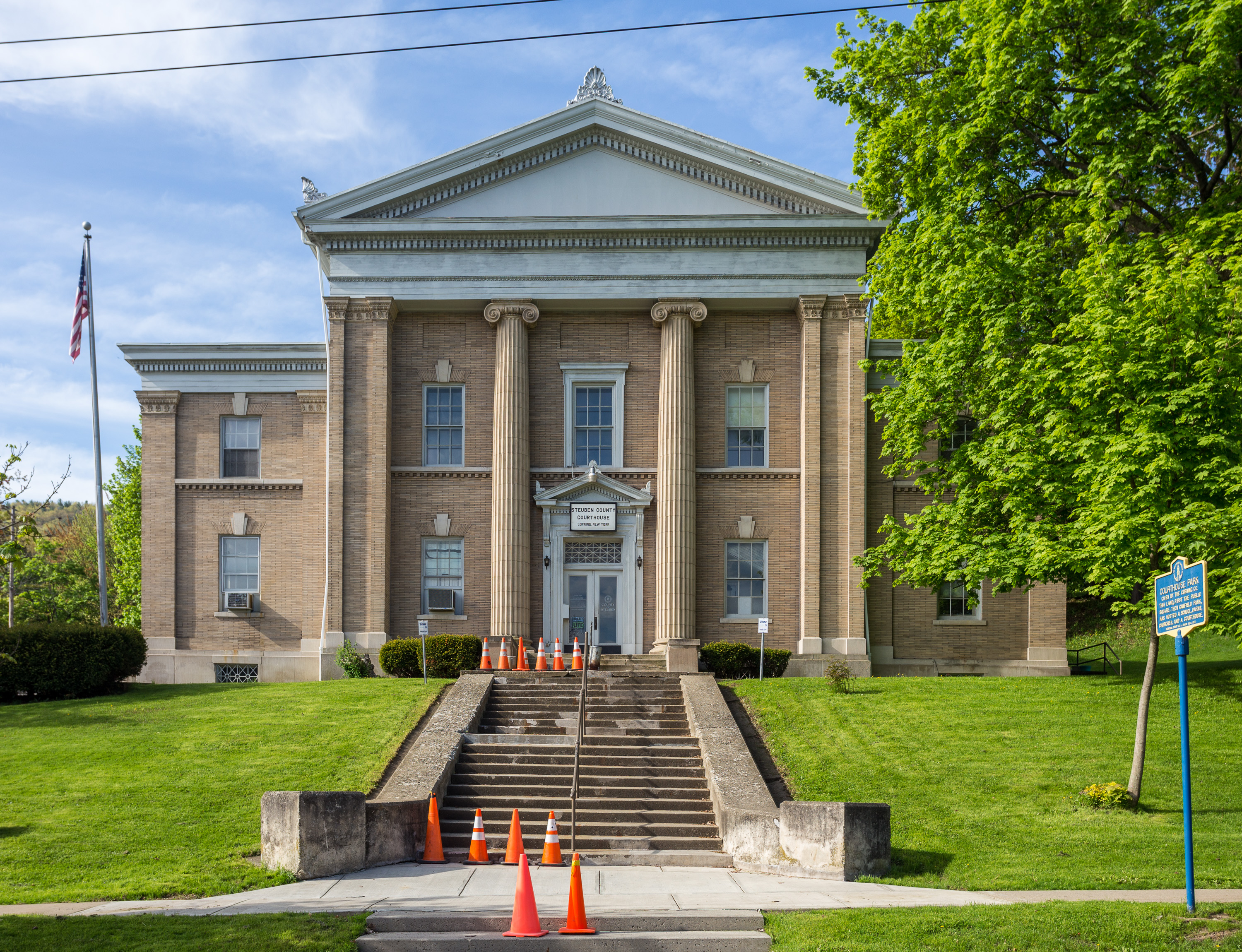 Steuben County Courthouse, Corning, New York. Built 1903. Architect: J. Foster Warner.